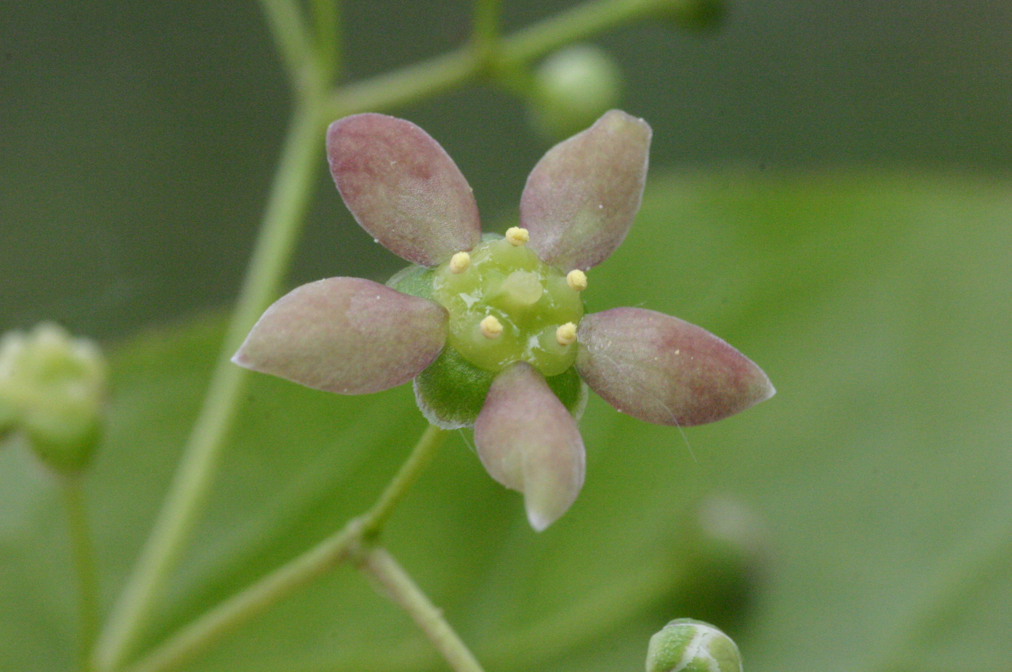 Euonymus latifolius